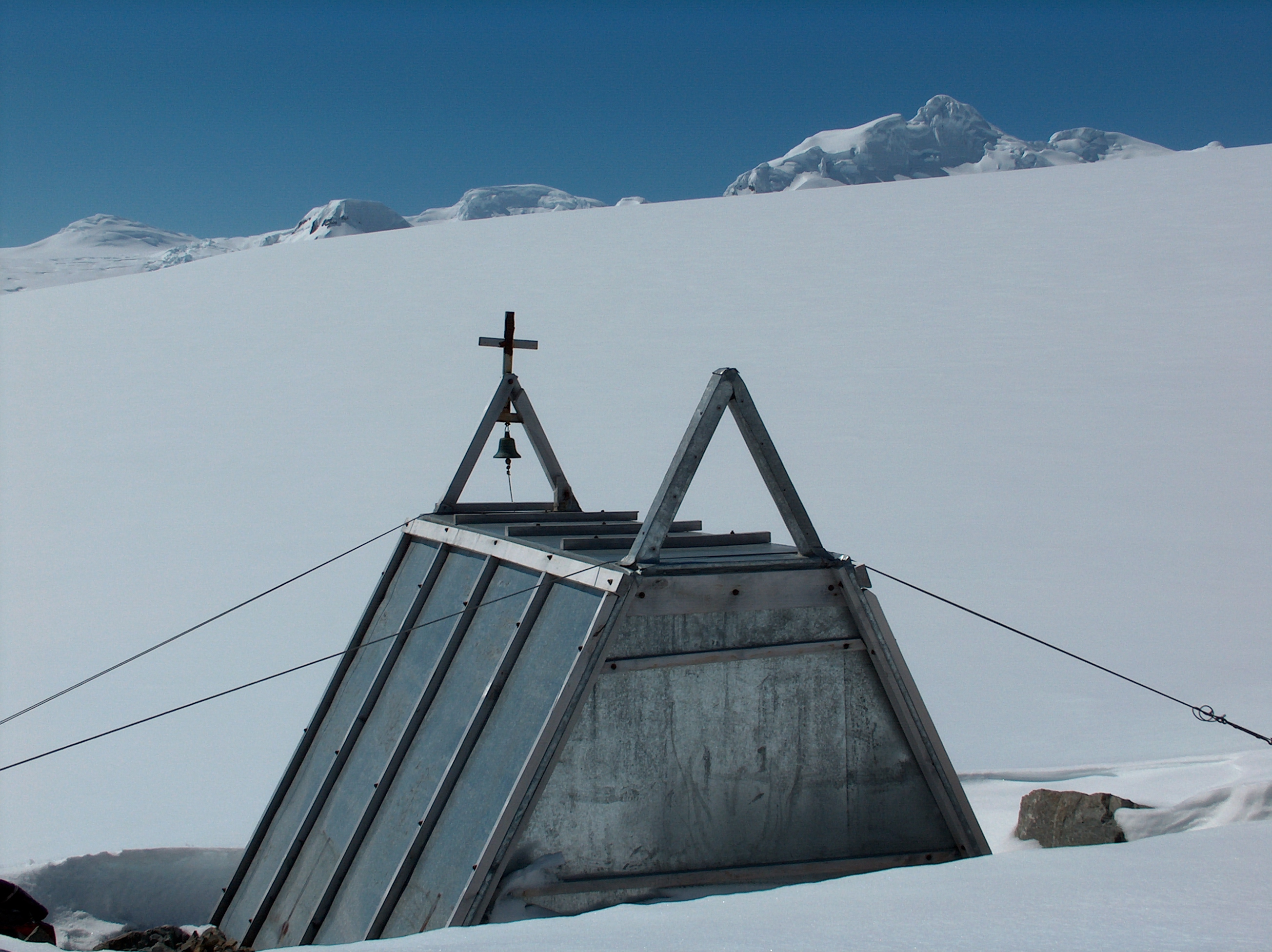 The old premises of St. Ivan Rilski Chapel at St. Kliment Ohridski Base on Livingston Island in the South Shetland Islands. For the new premises see File:St.-Ivan-Rilski-Chapel-New-Building.jpg